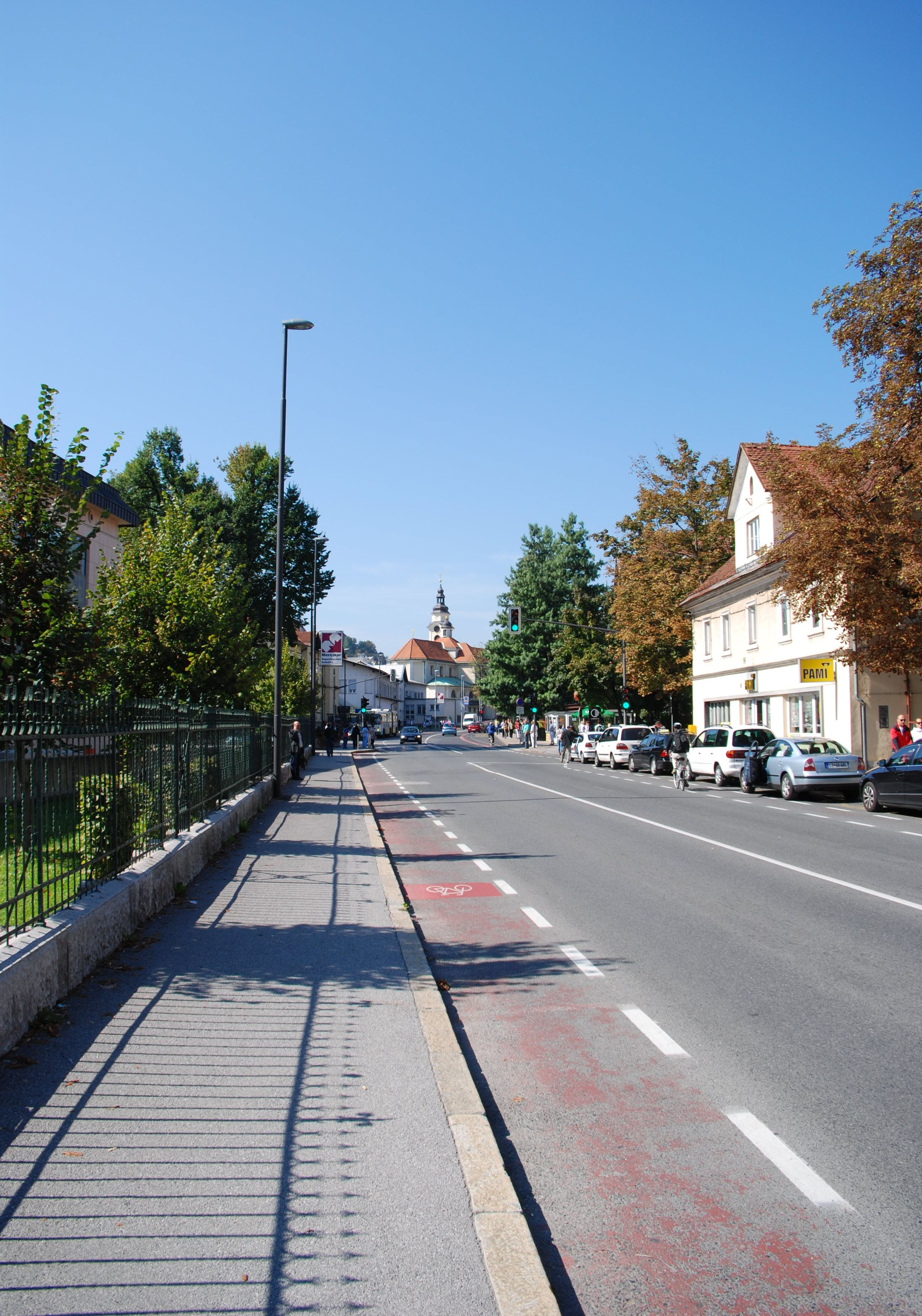 Zalog Street, Ljubljana, Slovenia. Picture taken from the Neurology Clinic towards St. Peter's Church.